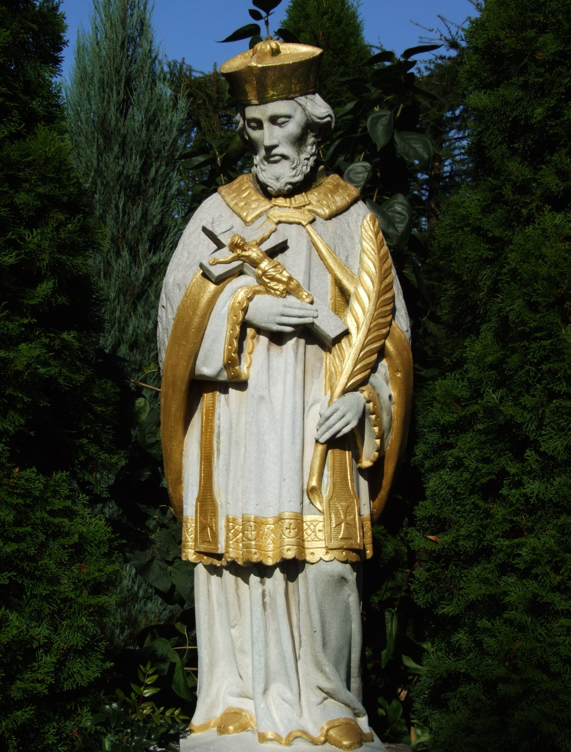 Statue of John of Nepomuk in Kup (Kupp) village, Upper Silesia. Author:unknown, date: 1868